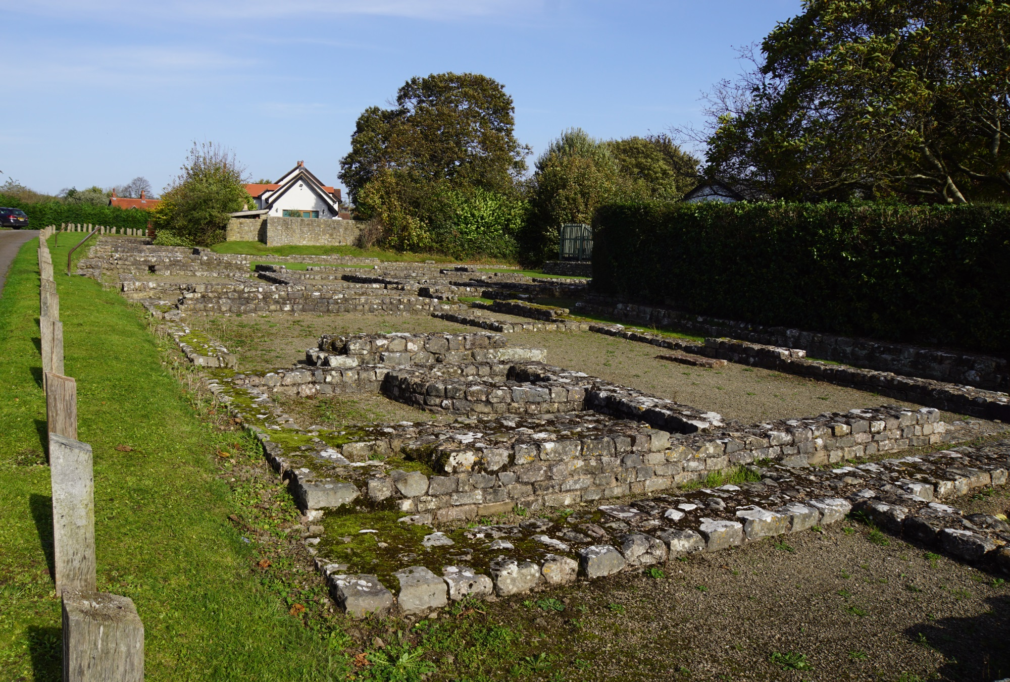 Caerwent, Wales. Shops and houses at Pound Lane in the Roman Town Venta Silurum.